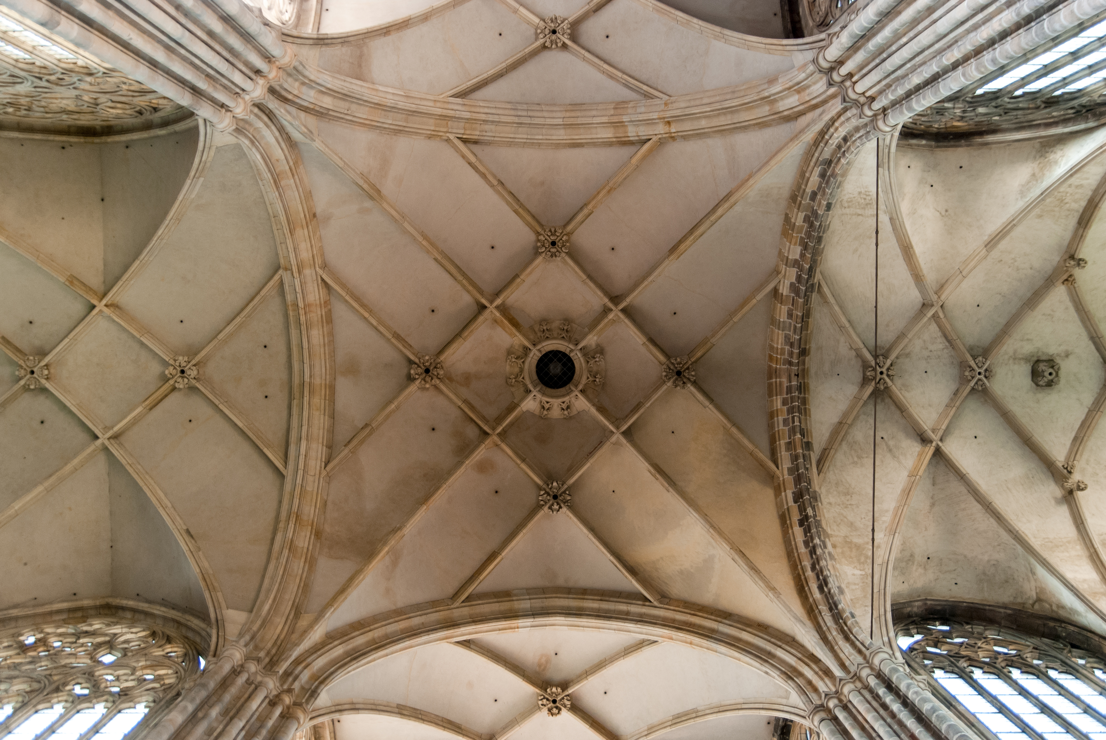 Pražský hrad, Hradčany.